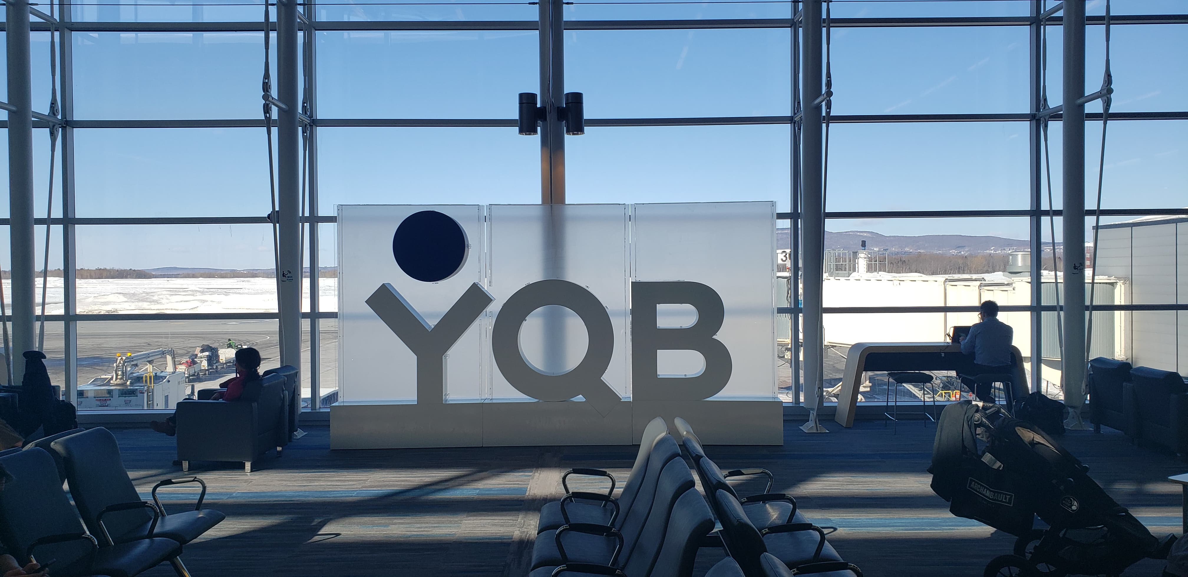 Canadians know keeping their house warm isn’t a luxury. We believe they shouldn’t have to pay GST on home heating and energy bills. Looking forward to talking about my newest policy and take lots of questions at tonight’s townhall in Kitchener. See you soon Kitchener!